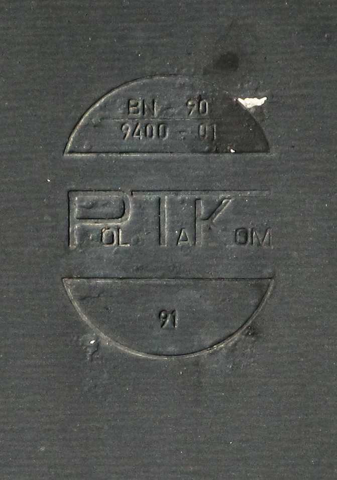 Example of the stamp on polish vehicle plate (1976-2000 era).